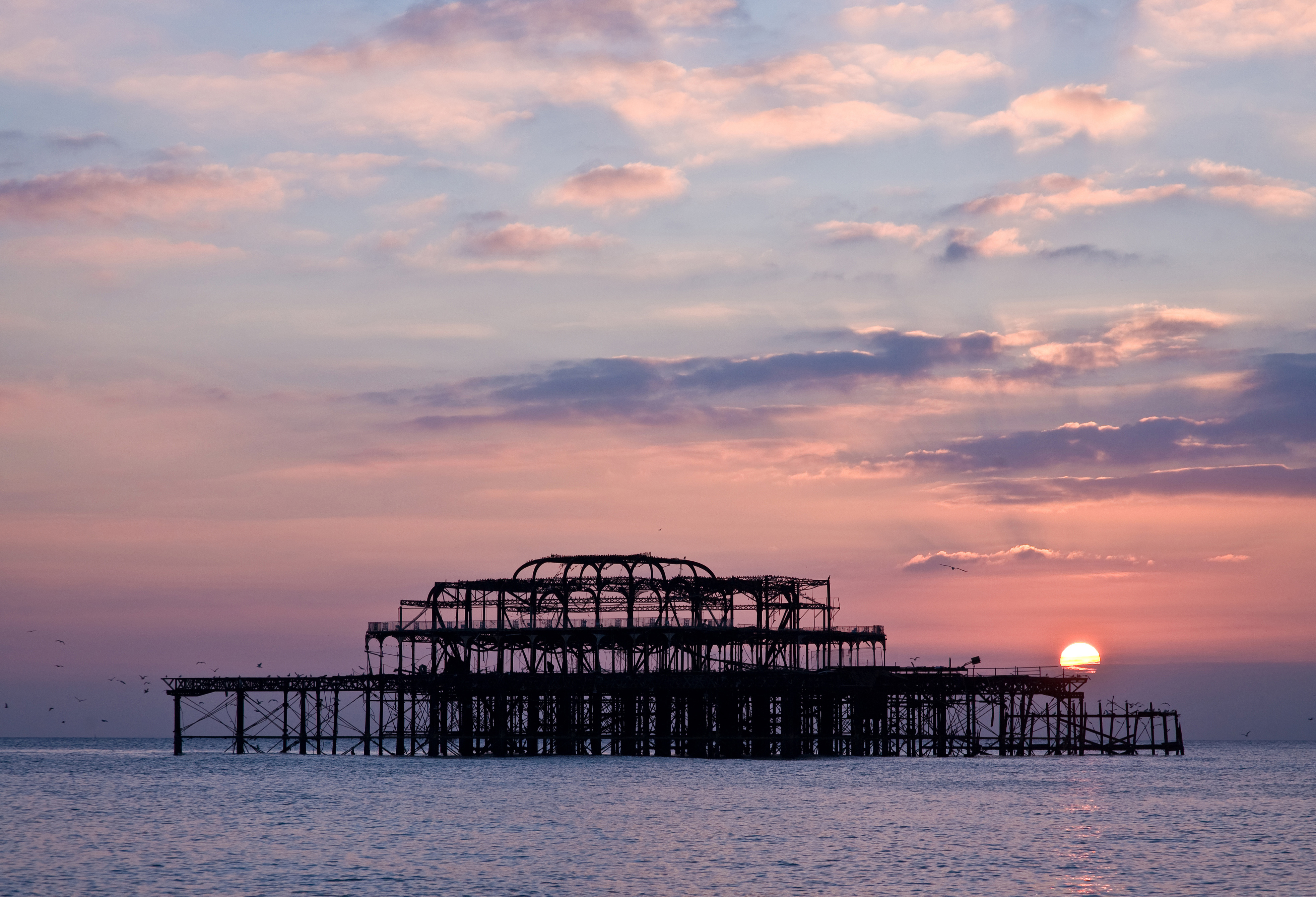 Brighton's West Pier remains at sunset.